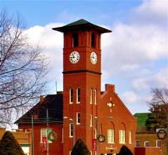 A Fire Station No 2 henderson's most notable landmark